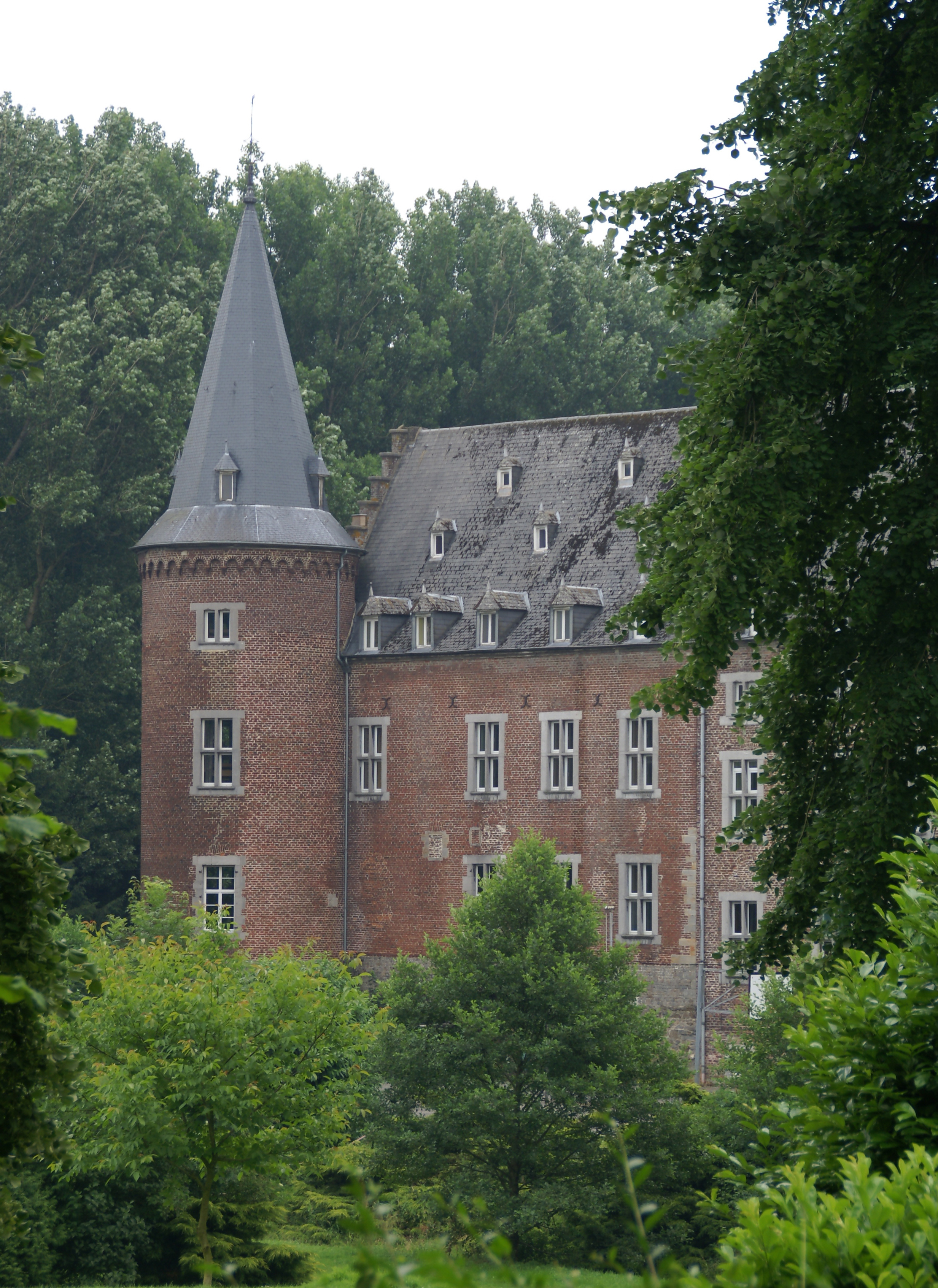 Remersdaal (Belgium): Obsinnich Castle